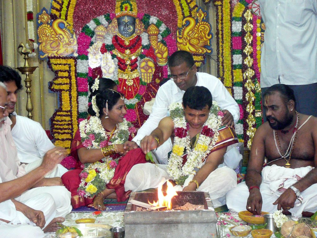 Hindu bride and groom by a holy fire in front of an idol. The groom is throwing an offering onto the fire.